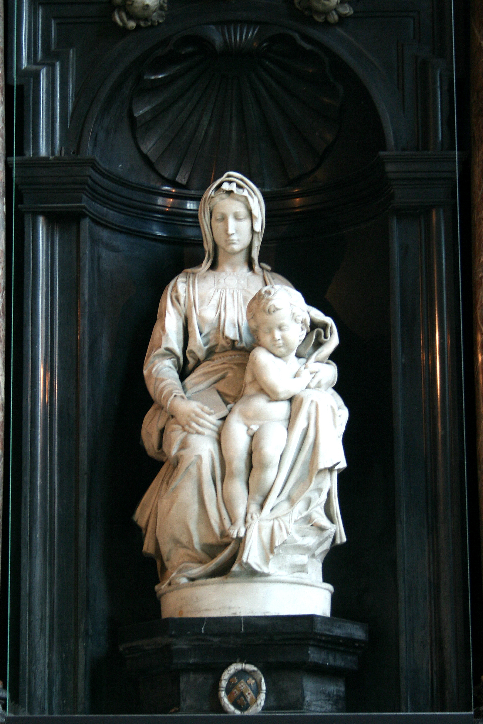 The Madonna an Child in the church of Our Lady of Bruges by Michelangelo (early XVIth century).